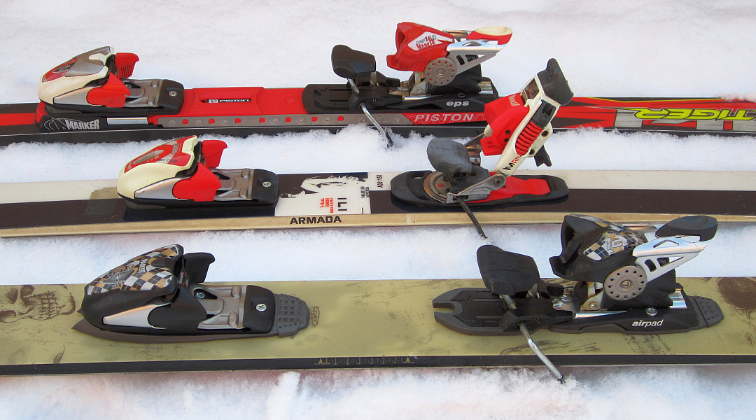 Marker bindings for alpine skiing, from back to front: 2005 Marker Comp 16.0 EPS with Piston Control plate on giant slalom racing skis 1990s Marker MRR 1500 on park/halfpipe skis 2010s Marker 12.0 Free on backcountry skis